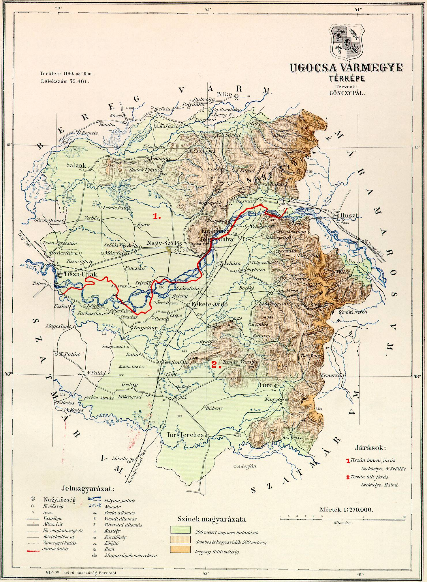 County of Ugocsa in the pre-Trianon Kingdom of Hungary. Komitat Ugocsa w Królestwie Węgier przed traktatem w Trianon.